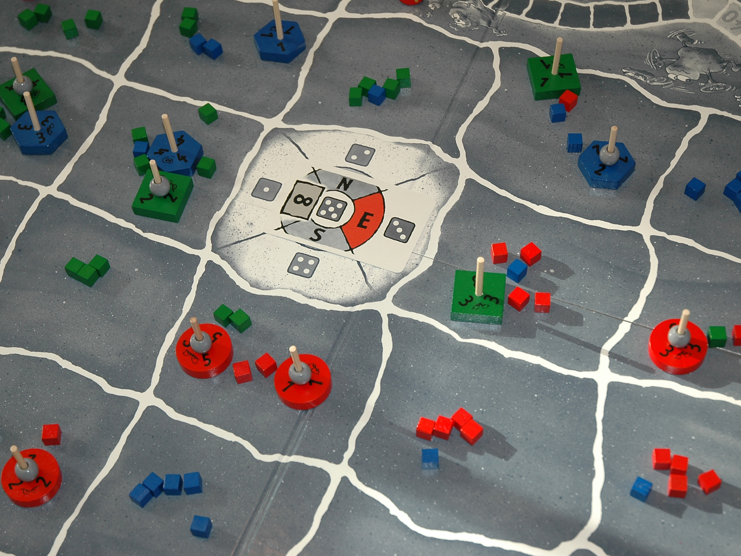 Close-up of the board (in play) for the board game Primordial Soup